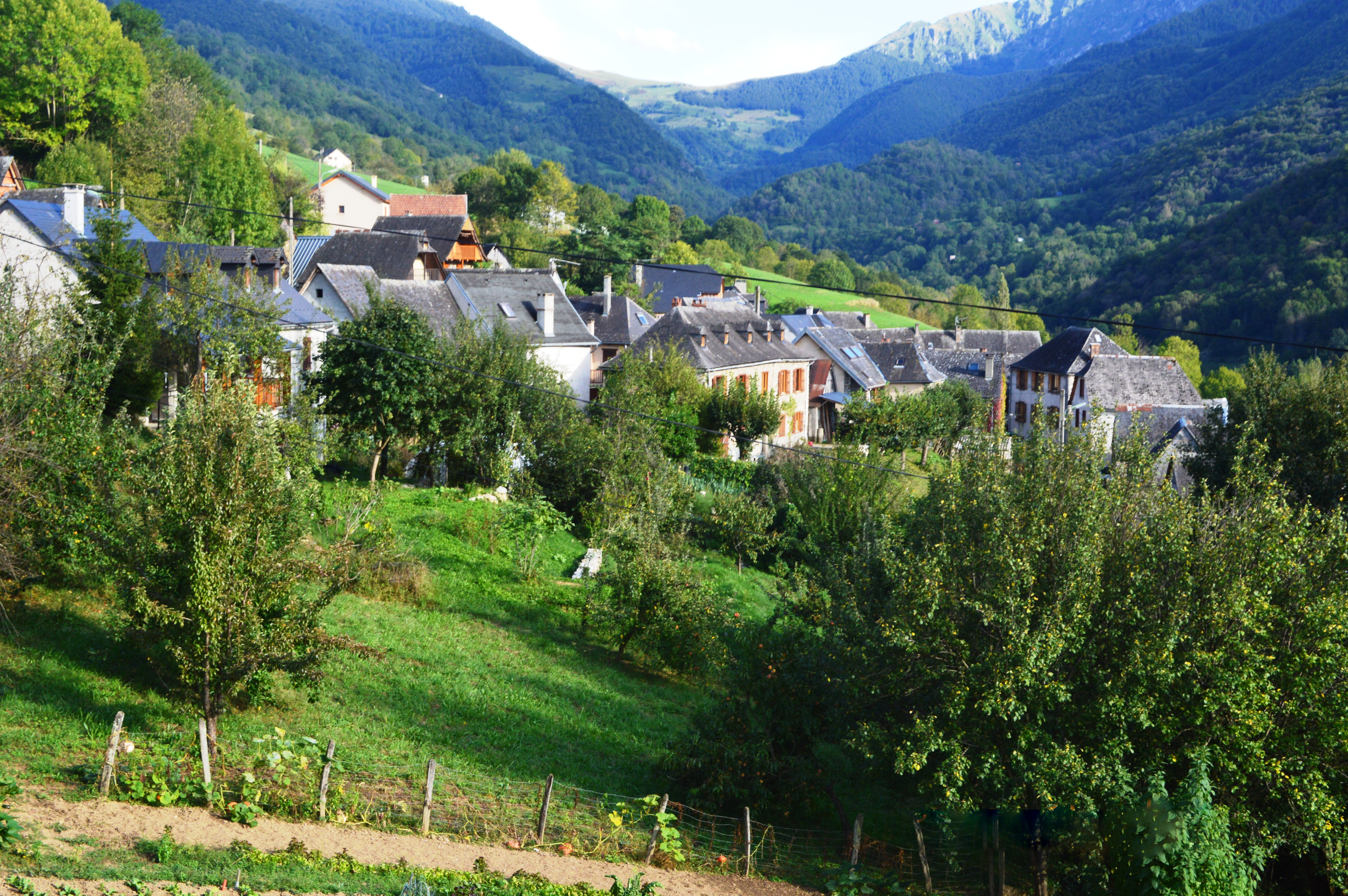 Arrien-en-Bethmale, Ariège, France - View of the Village.